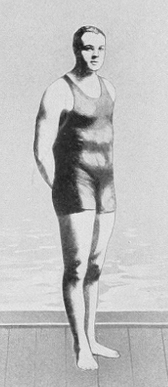 Harry Hebner at the 1912 Summer Olympics